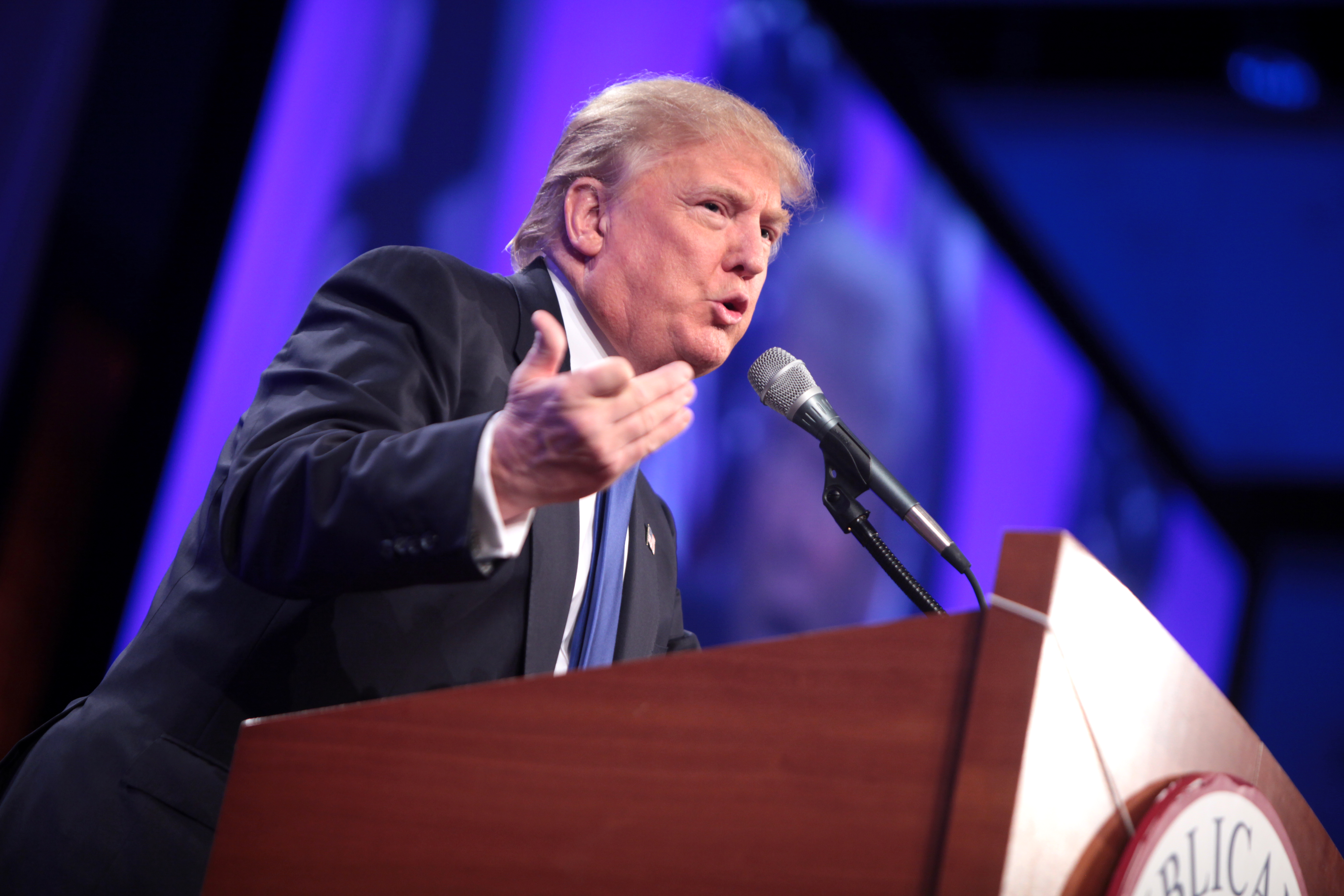 Donald Trump speaking at the Iowa Republican Party's 2015 Lincoln Dinner at the Iowa Events Center in Des Moines, Iowa.